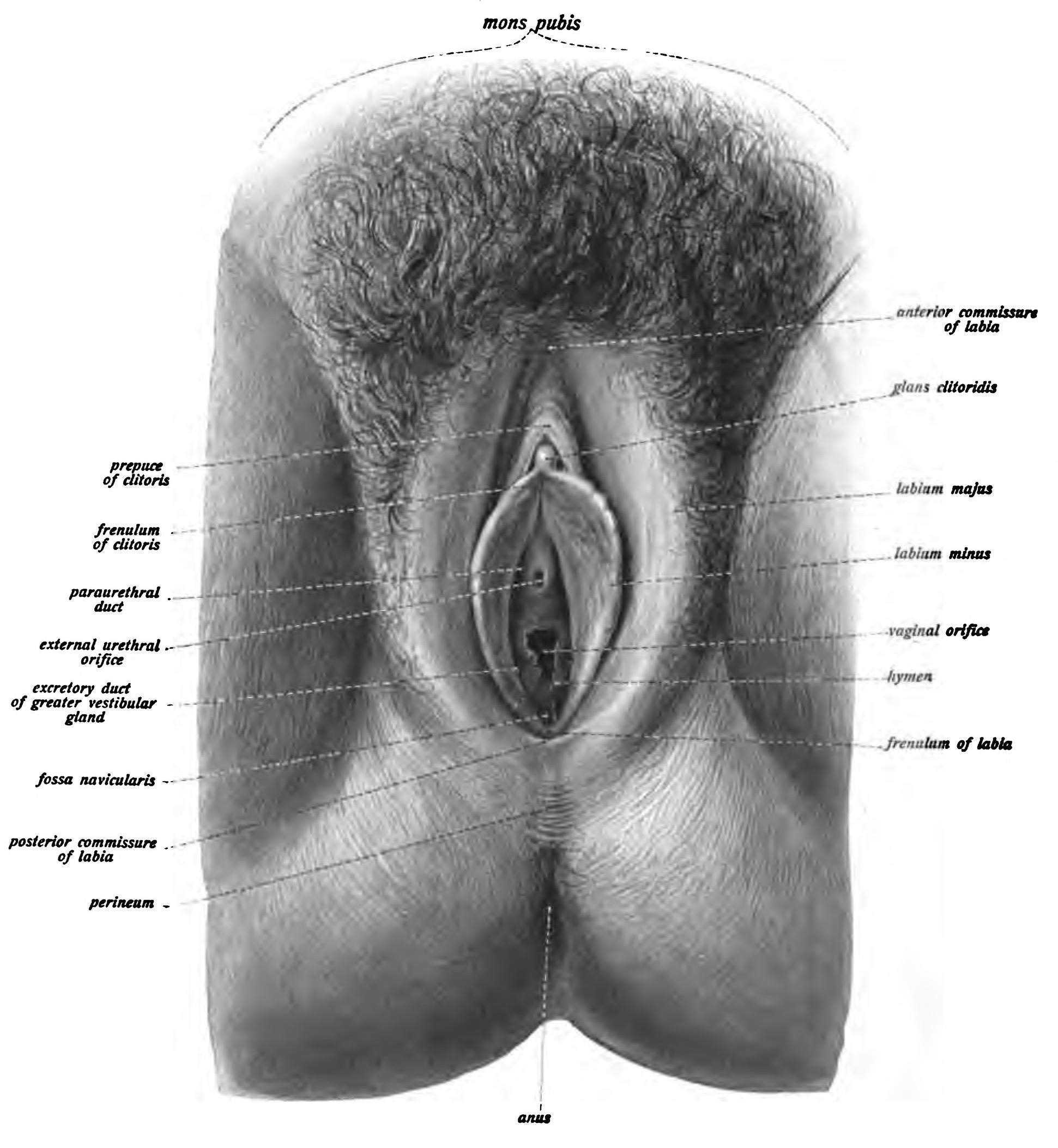 An anatomical illustration from the 1906 edition of Sobotta's Atlas and Text-book of Human Anatomy with English Terminology